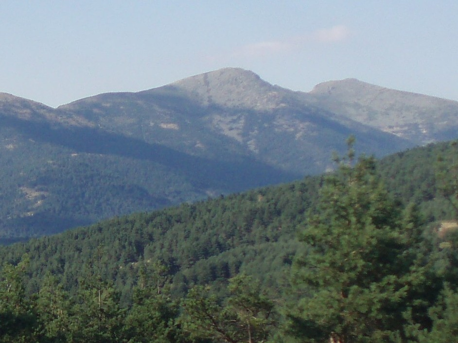 Peña del Oso seen from the Southwest, from the Guadarrama mountain pass, (Guadarrama mountain range, central Spain).